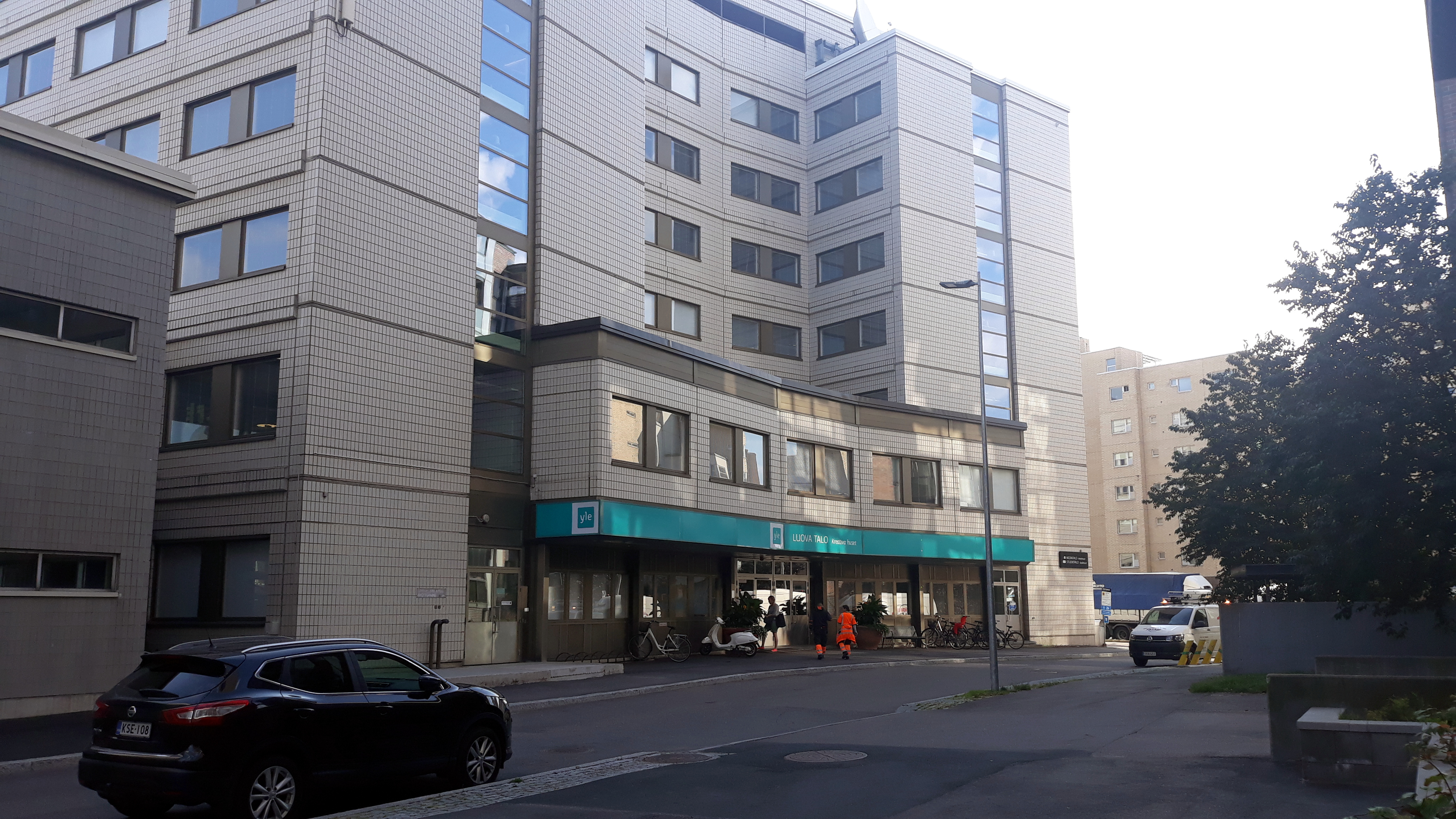 Yle's Luova talo (Creative House) in Länsi-Pasila, Helsinki.